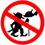 Please do not feed the Trolls